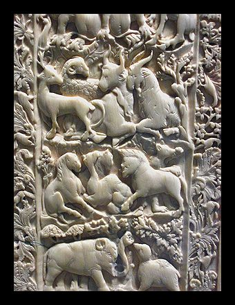 Characters, animals and monsters, illustration of Isidore of Seville's Etymologiæ. So-called "plate of the Earthly Paradise". Ivory, ca. 870–875. Reverse side of a leaf from one of Areobindus' consular diptychs, made in Constantinople in 506.